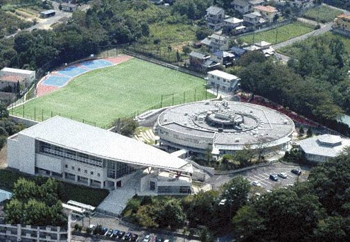 Aerial image